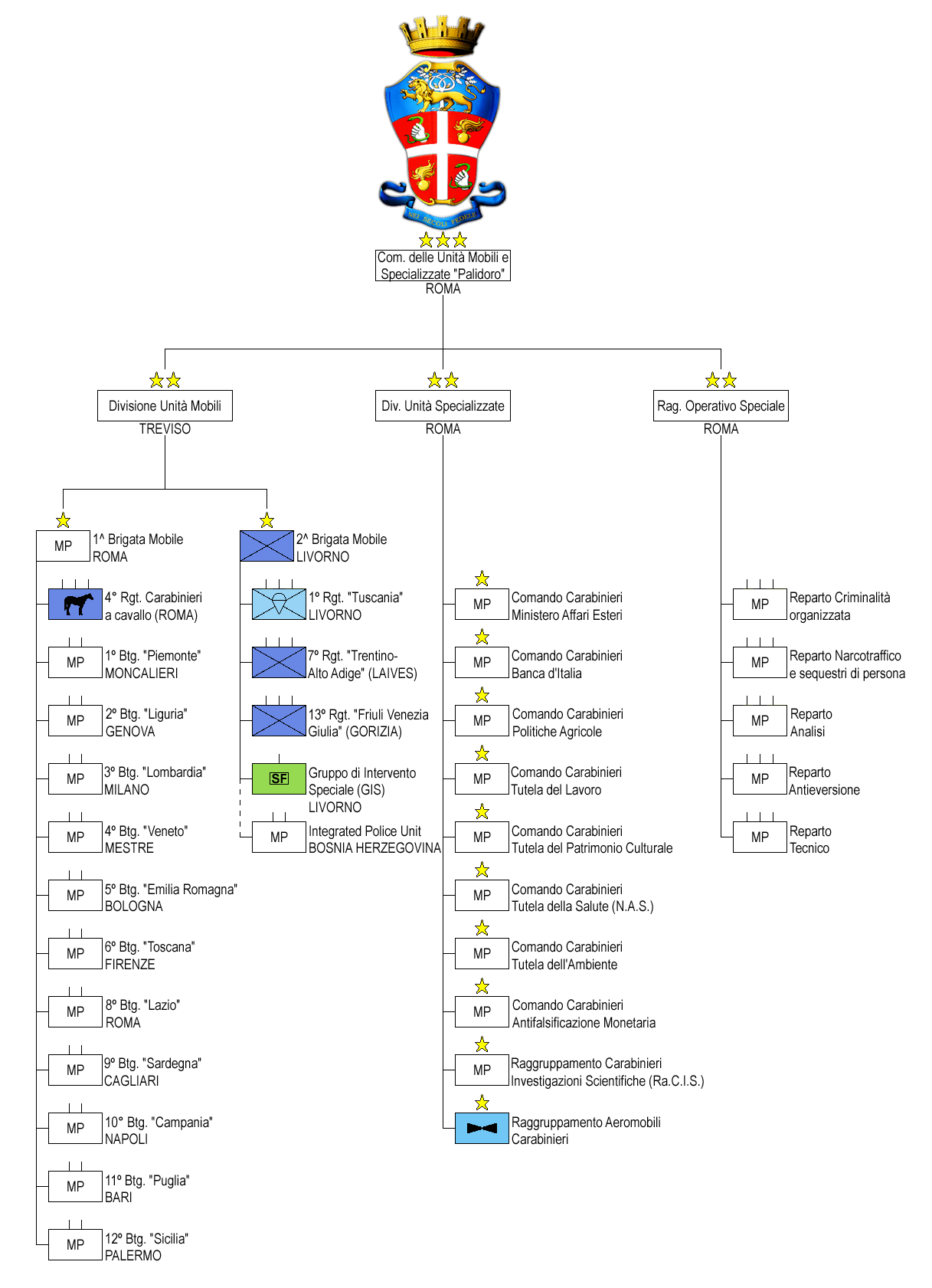 Structure Italian Carabinieri Specialist & Mobile Unit Command "Palidoro" (Italian version)